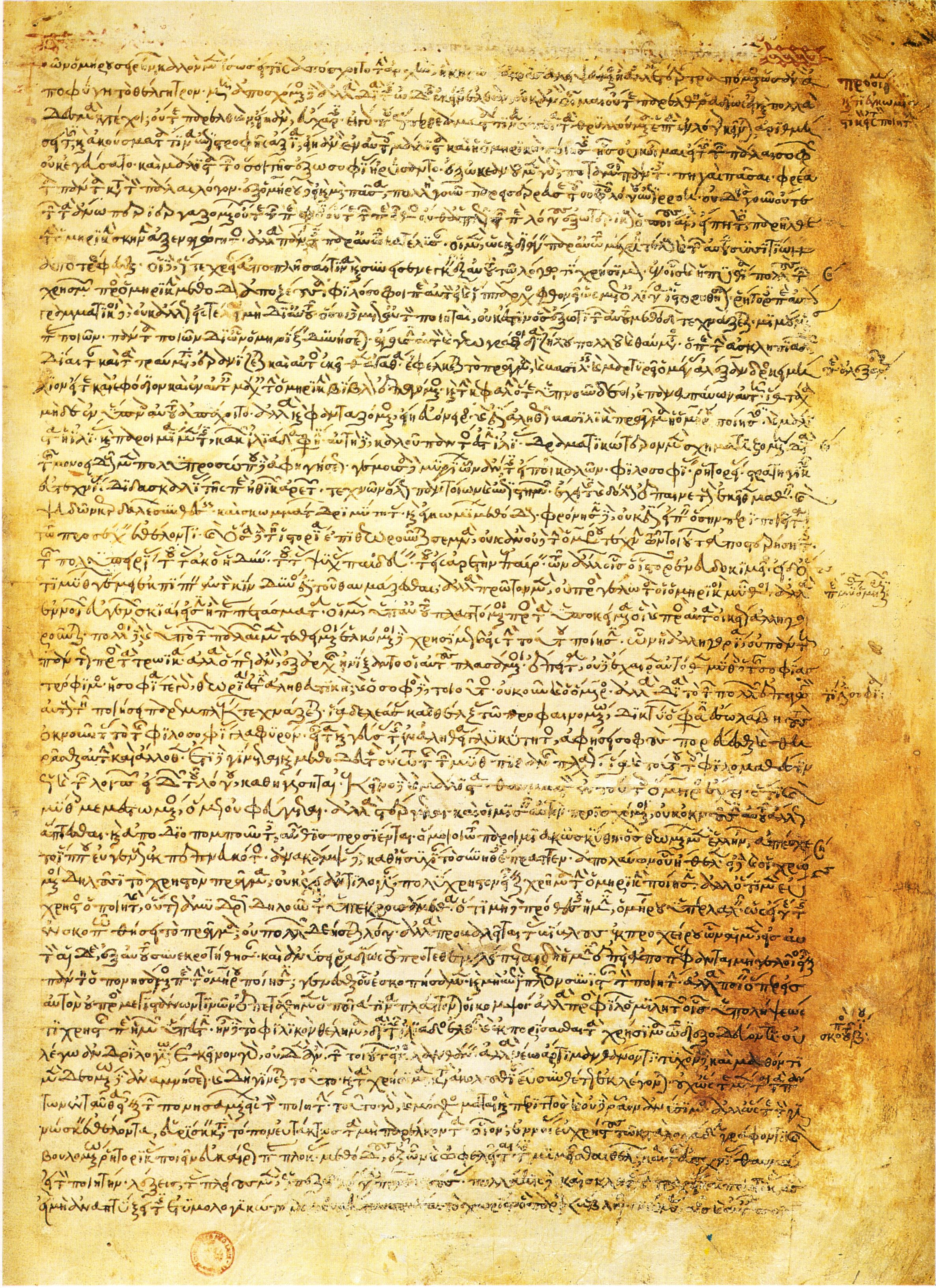 Eustathius of Thessalonica, Commentary on Homer’s Iliad, in the autograph manuscript Florence, Biblioteca Medicea Laurenziana, Plut. 59.2, fol. 1r.